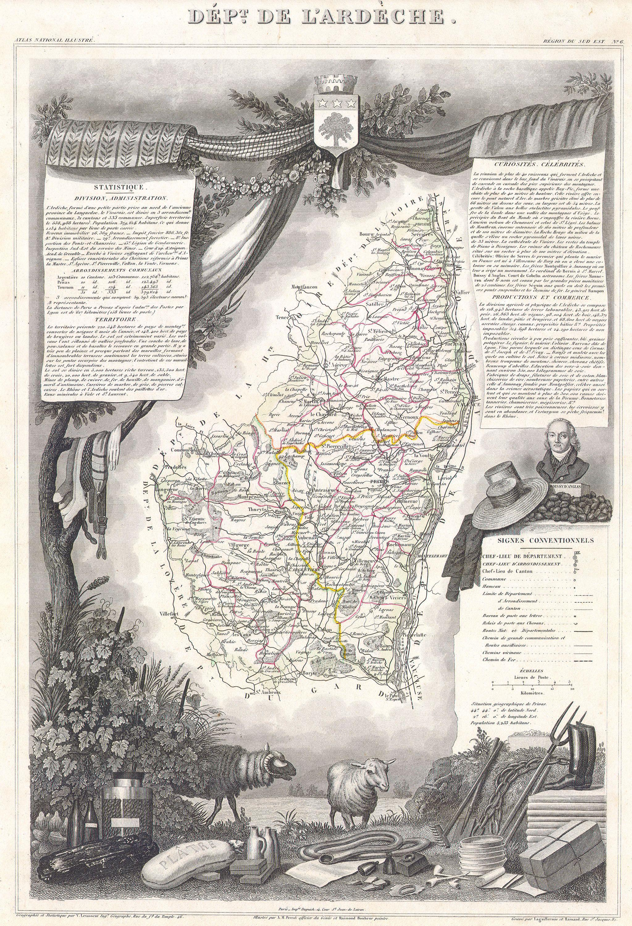 This is a fascinating 1847 map of the Department de L’Ardeche, France. This region is known for its fine wines, agriculture, distilled spirits, and cheese. The capital city is Privas. The whole is surrounded by elaborate decorative engravings designed to illustrate both the natural beauty and trade richness of the land. There is a short textual history of the regions depicted on both the left and right sides of the map.